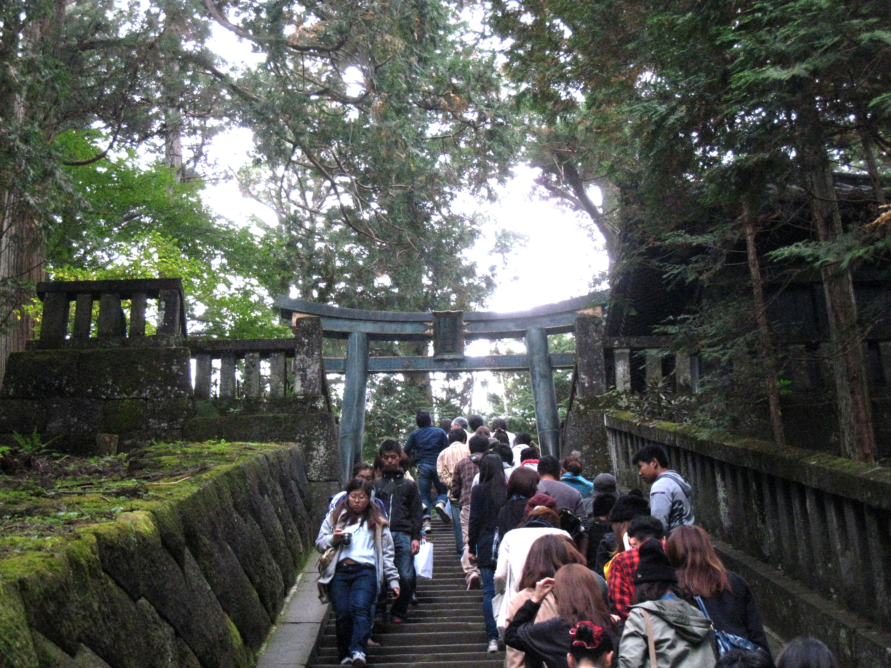 Stone steps and Torii to Ieyasu's tomb